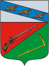 Tim (Kursk oblast), coat of arms (1780)